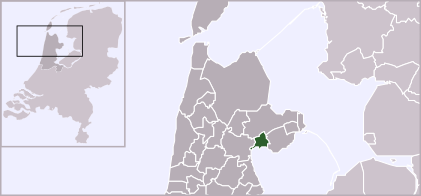 Location of Hoorn